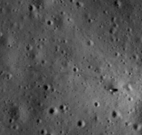 Image of the Apollo 14 landing site taken by the Lunar Reconnaissance Orbiter. The lander is just below the centre right and tracks on the surface can be seen through the centre of the image. The image width is about 300 metres.